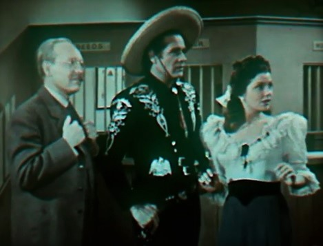 Left to right: Byron Foulger, Duncan Renaldo, and Jane Adams in the TV series The Cisco Kid, episode Boomerang (cropped screenshot)